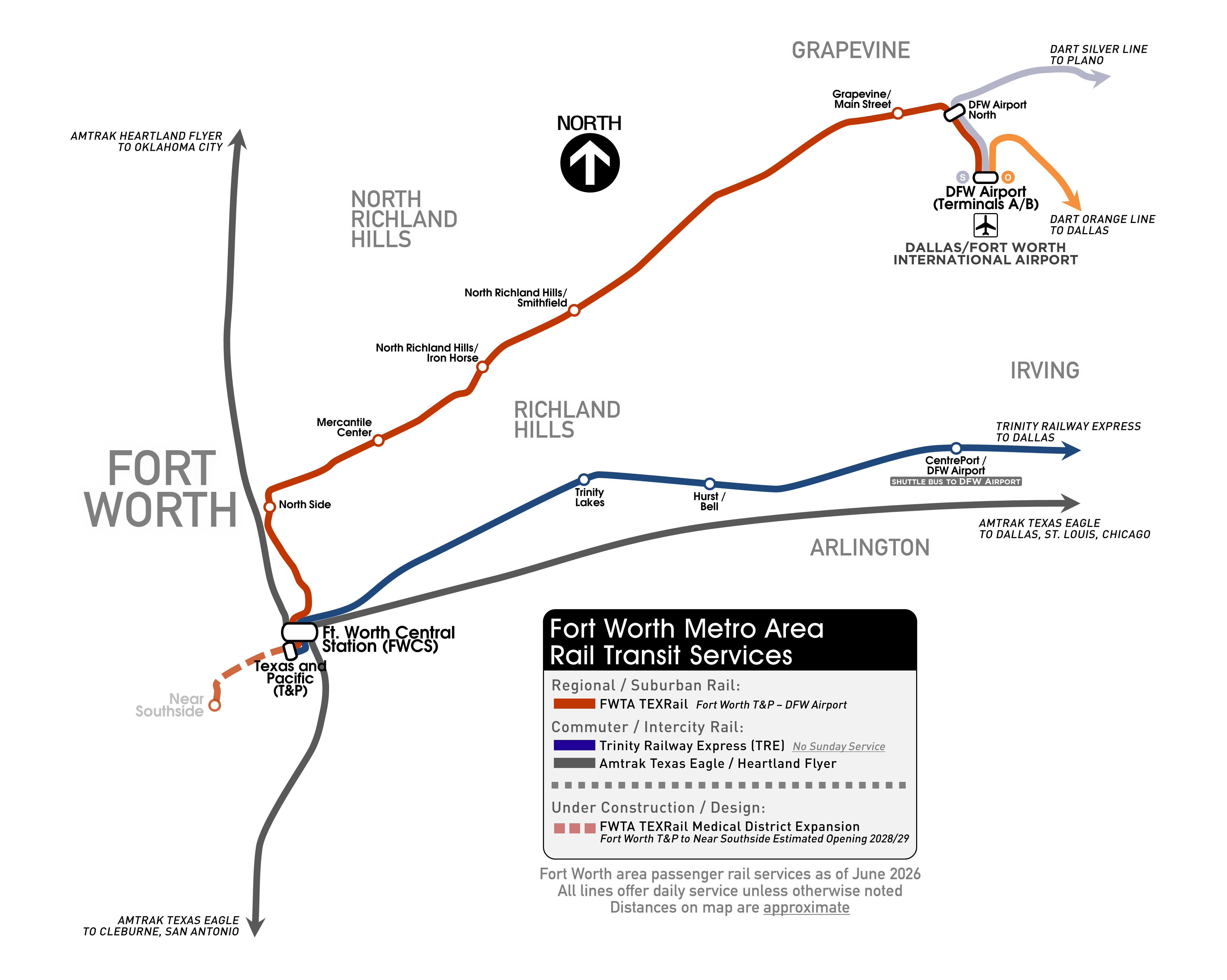 Map of public rail transit serving the Fort Worth area within Texas, United States. Current as of January 2019.